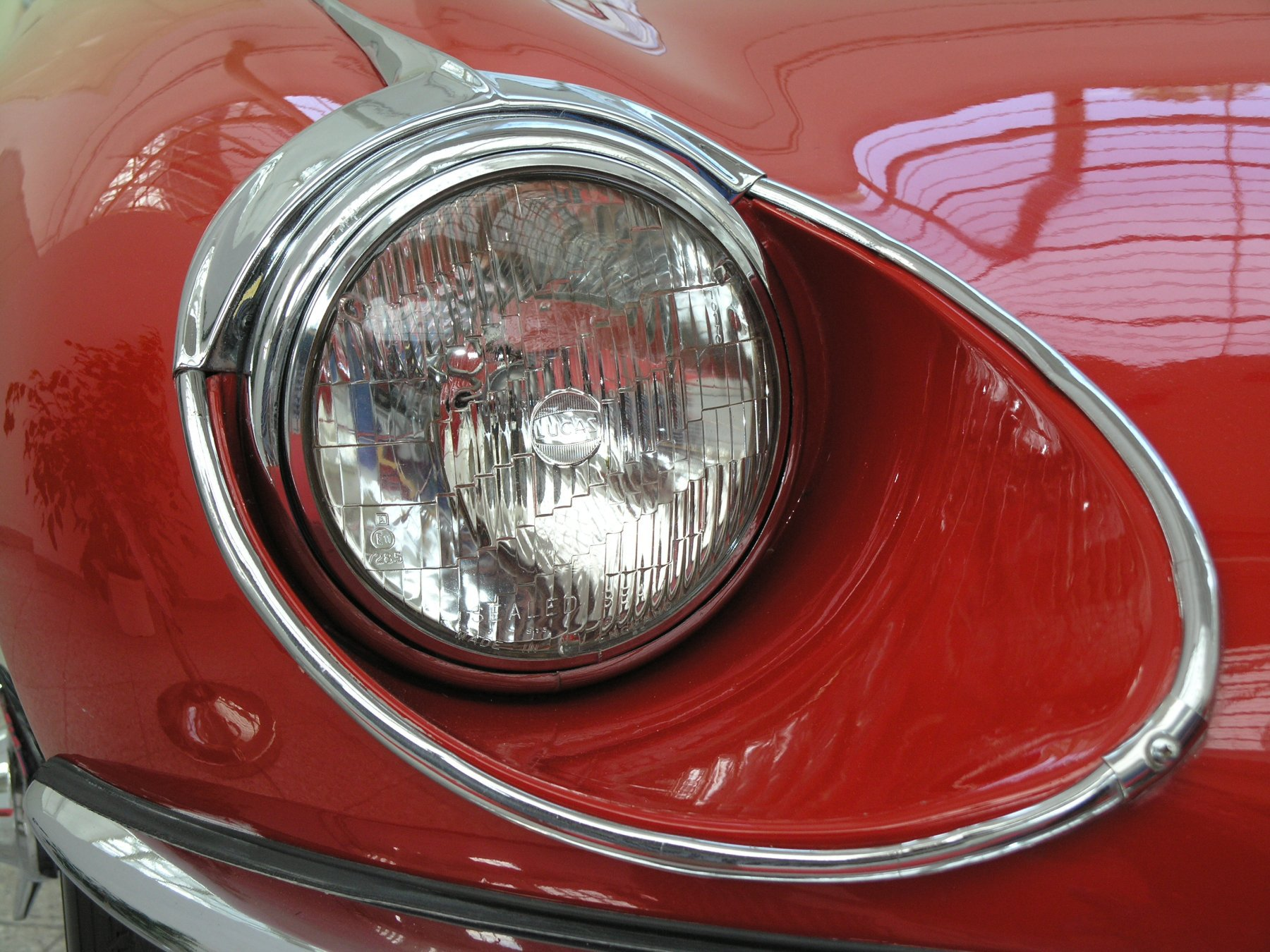 Jaguar E-Type serie III (1971)